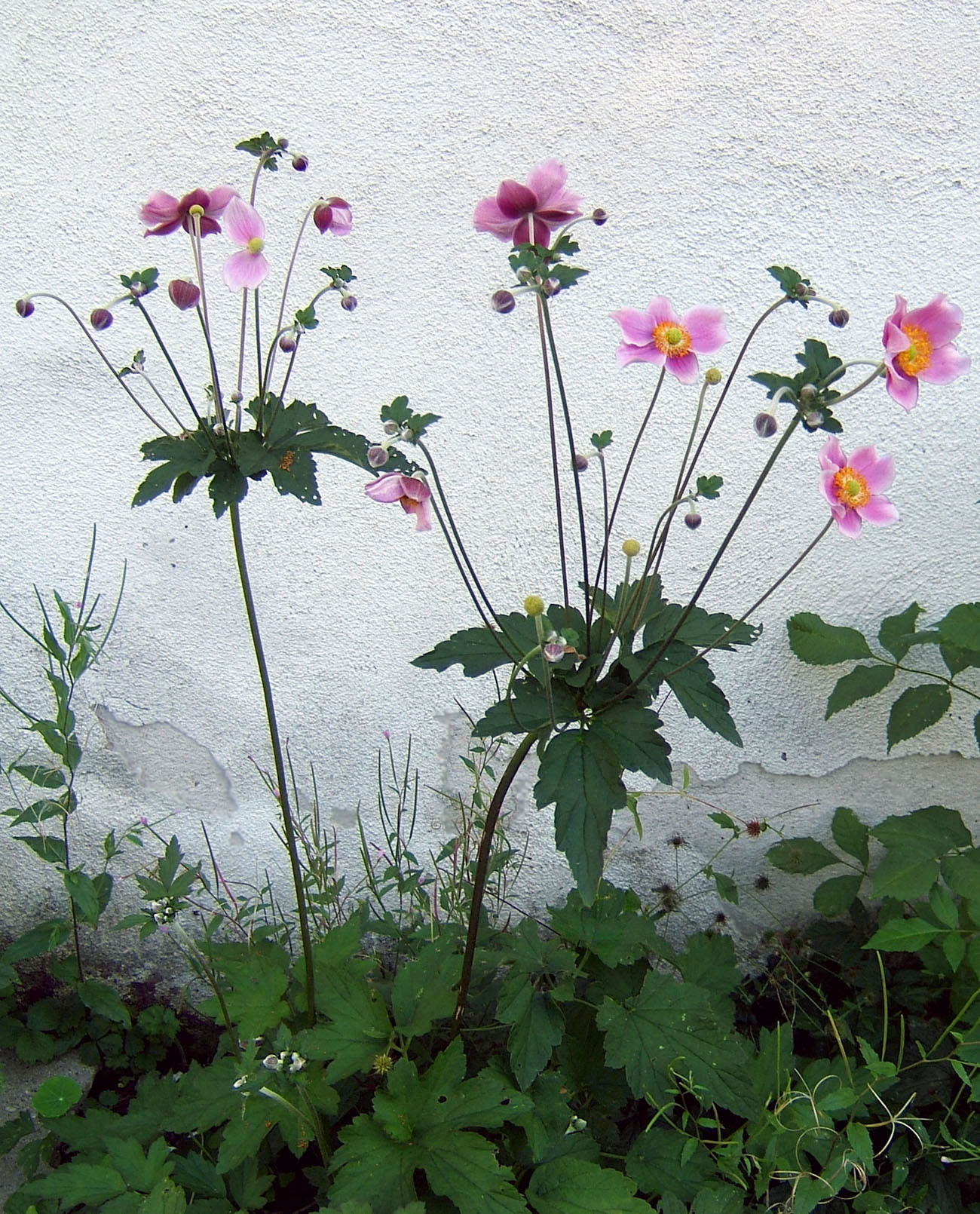 Chinese Anemone